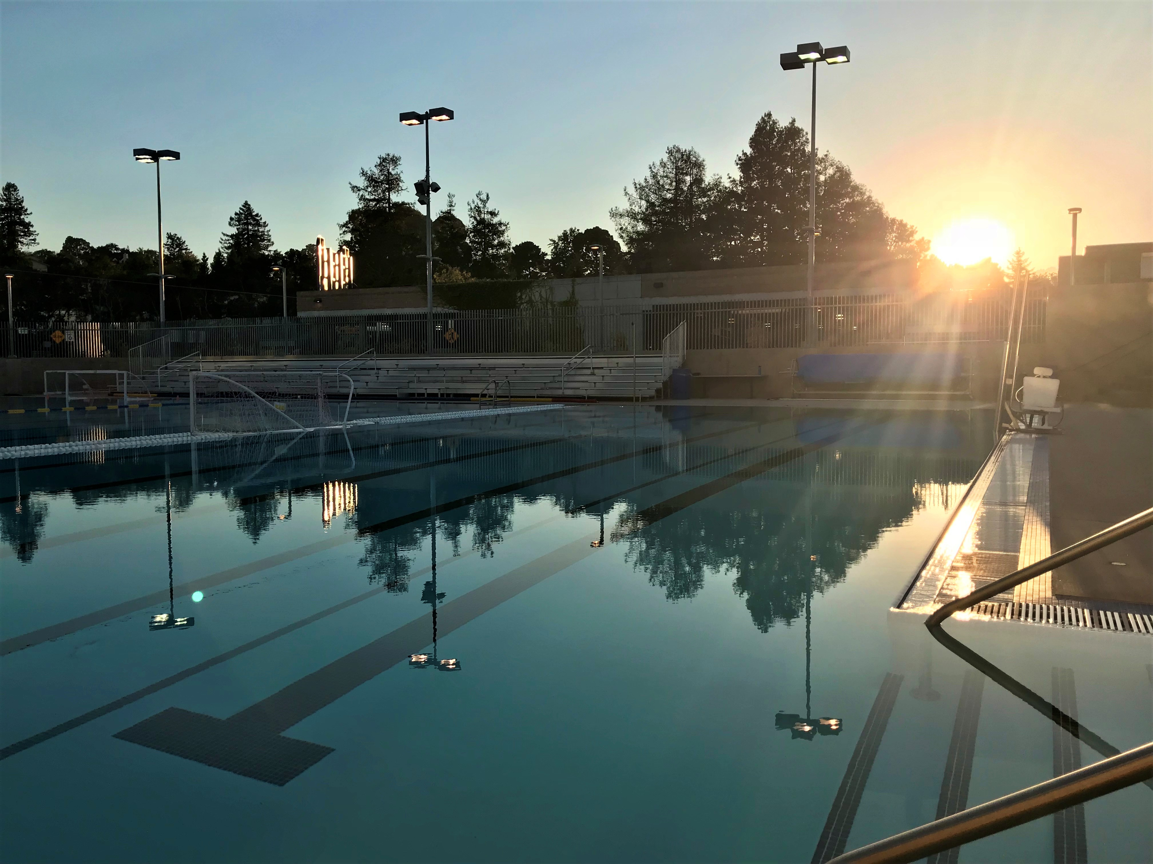 Serra HS Pool